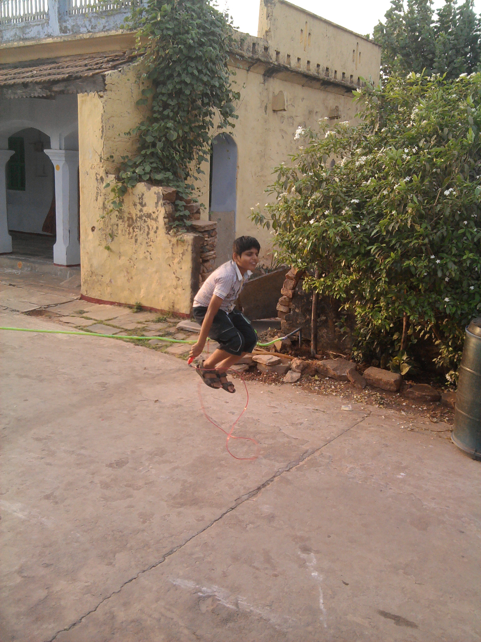 Boy playing jump rope